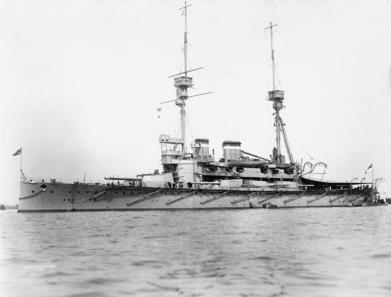 Photograph of British battleship HMS Lord Nelson.